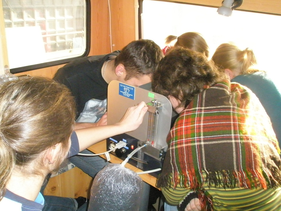 TO7 olfactometer in mobile laboratory